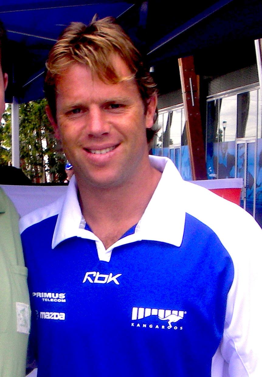 Australian rules footballer Glenn Archer at a North Melbourne Football Club open day.